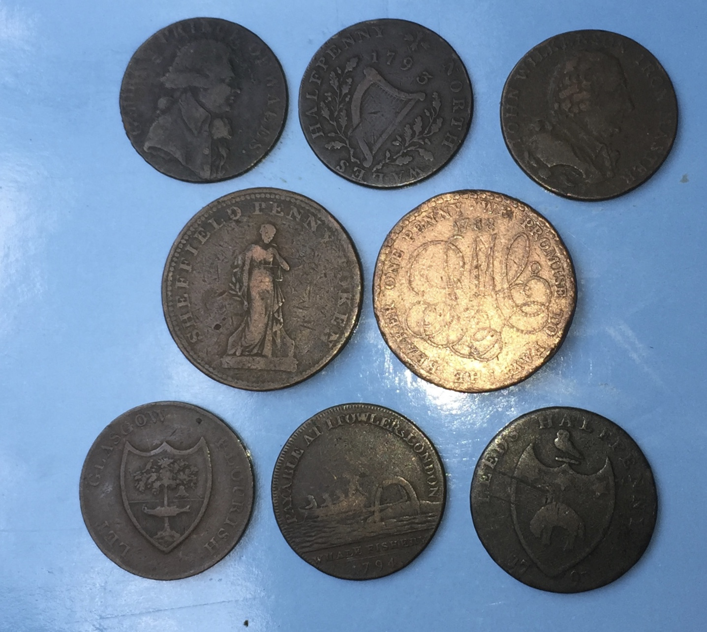 A group of Condor tokens issued in Britain between 1787 and 1814.